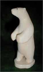 A hand-carved ivory polar bear statue.